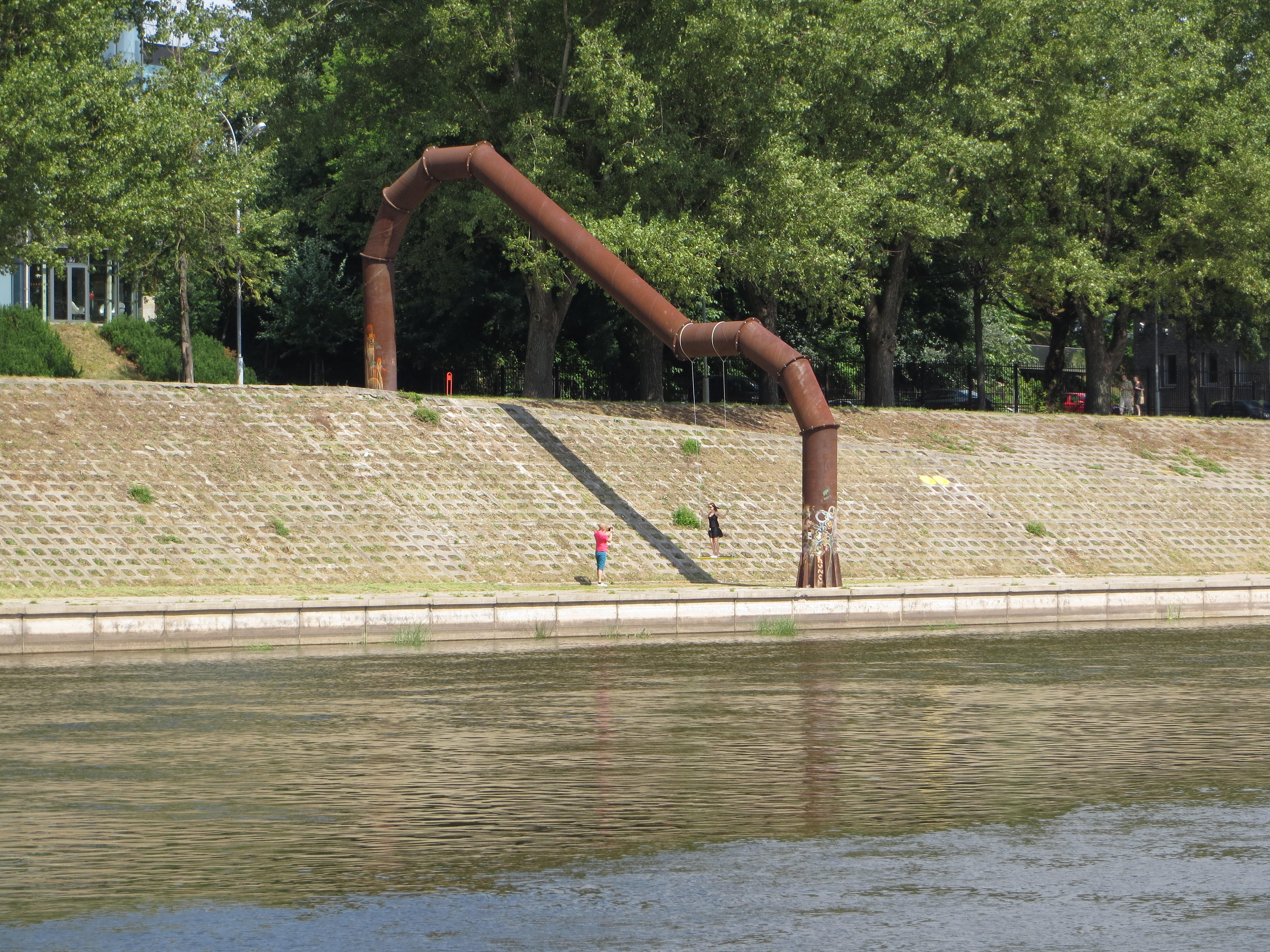 Along the Neris riverwalk in Vilnius, Lithuania, you'll find a number of artworks, some of them playfully formed - such as this swing mounted on what may look like a gas pipeline.